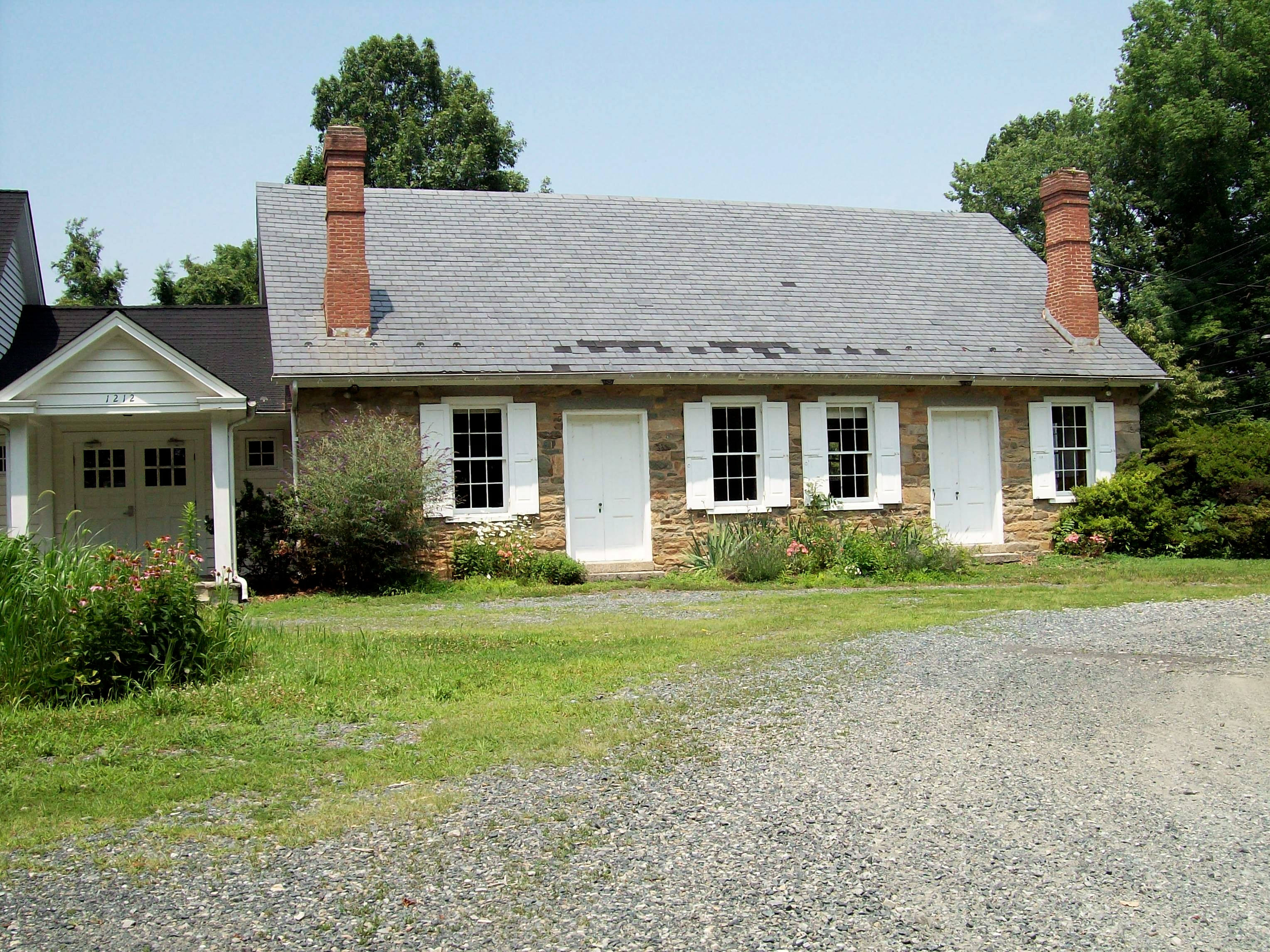 This is a picture of the Deer Creek Friends Meetinghouse, located in historic Darlington, Maryland.